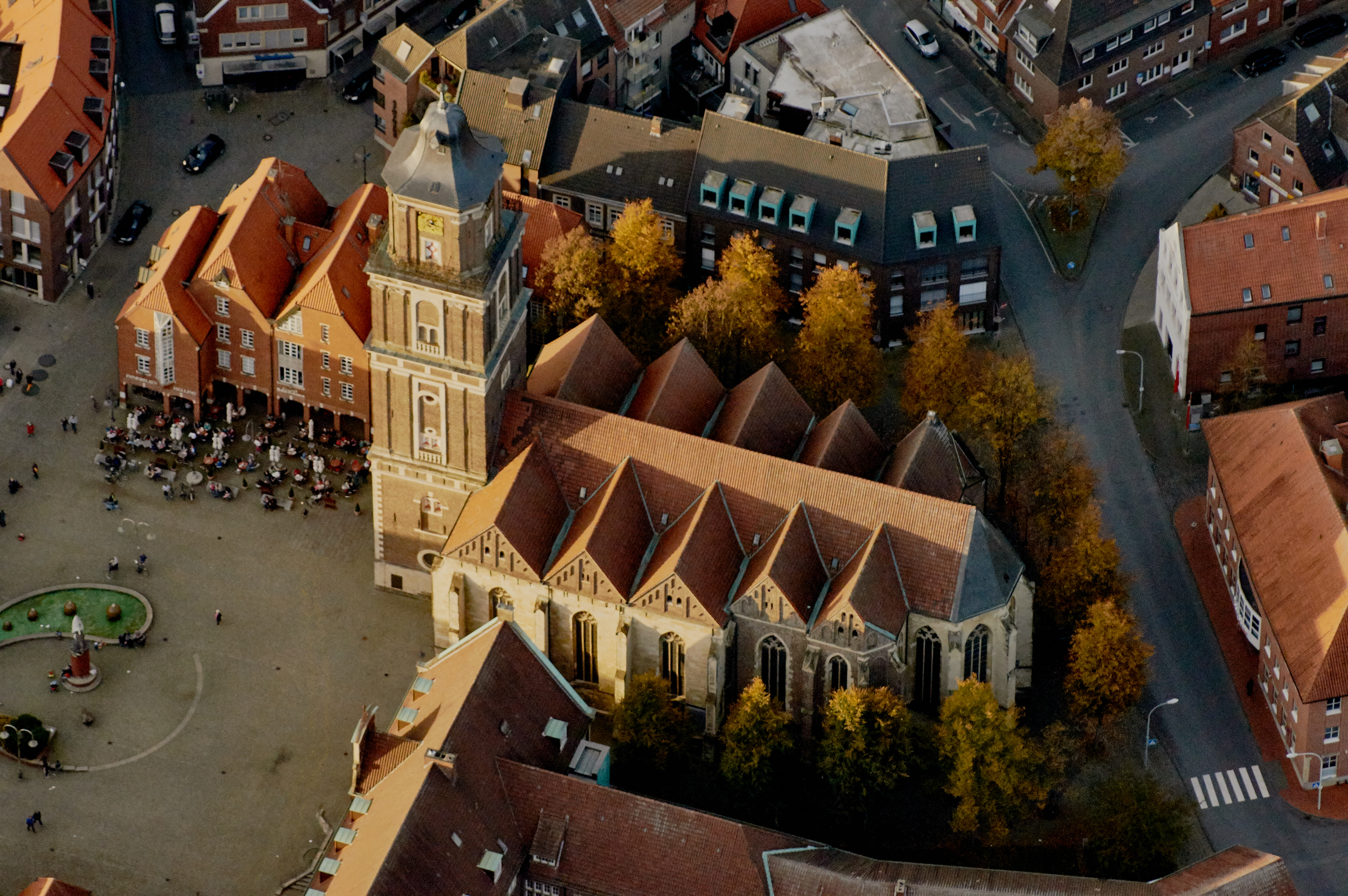 Aerial view of Coesfeld, district of Coesfeld, North Rhine-Westphalia, Germany, and the church St. Lamberti.